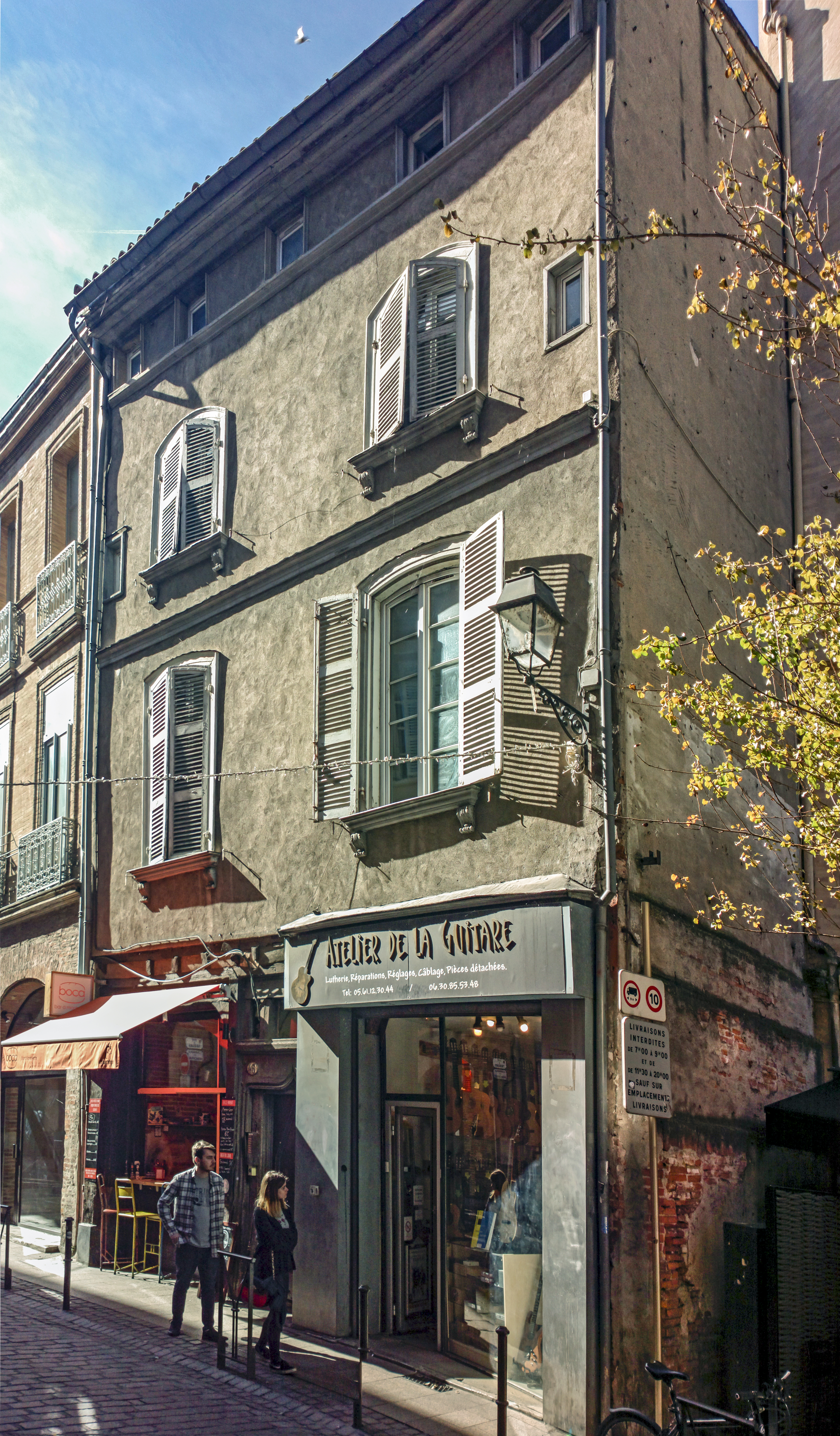 Rue Peyrolières, in Toulouse - no 45 - The house of the blacksmith Bernard Ortet late fifteenth century.